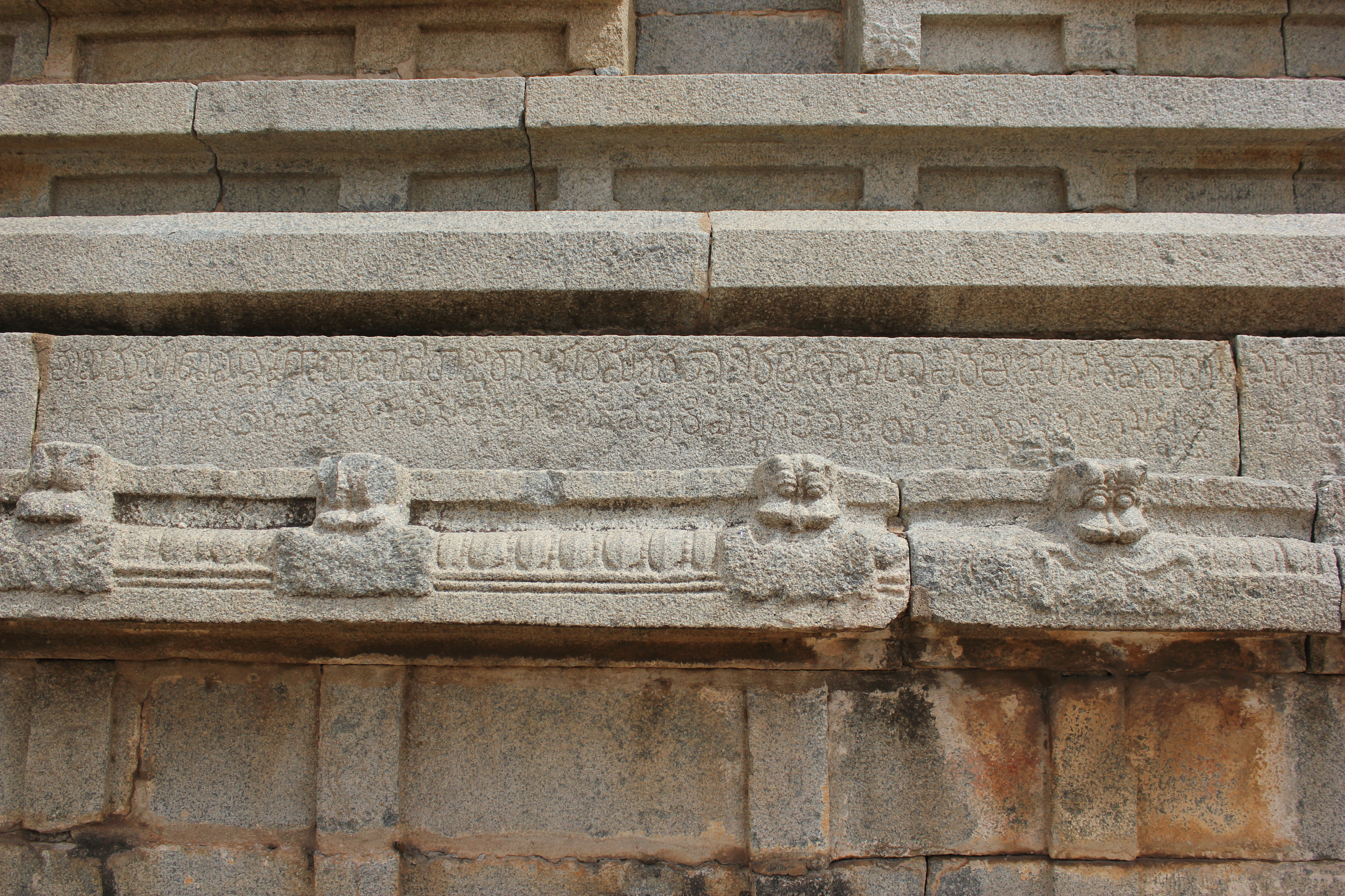 This photograph of a Kannada inscription (1536 AD) of Vijayanagara King Achyuta Raya was taken by me at the Vitthala temple complex in Hampi, a UNESCO world heritage site in the Bellary district, Karnataka state, India.